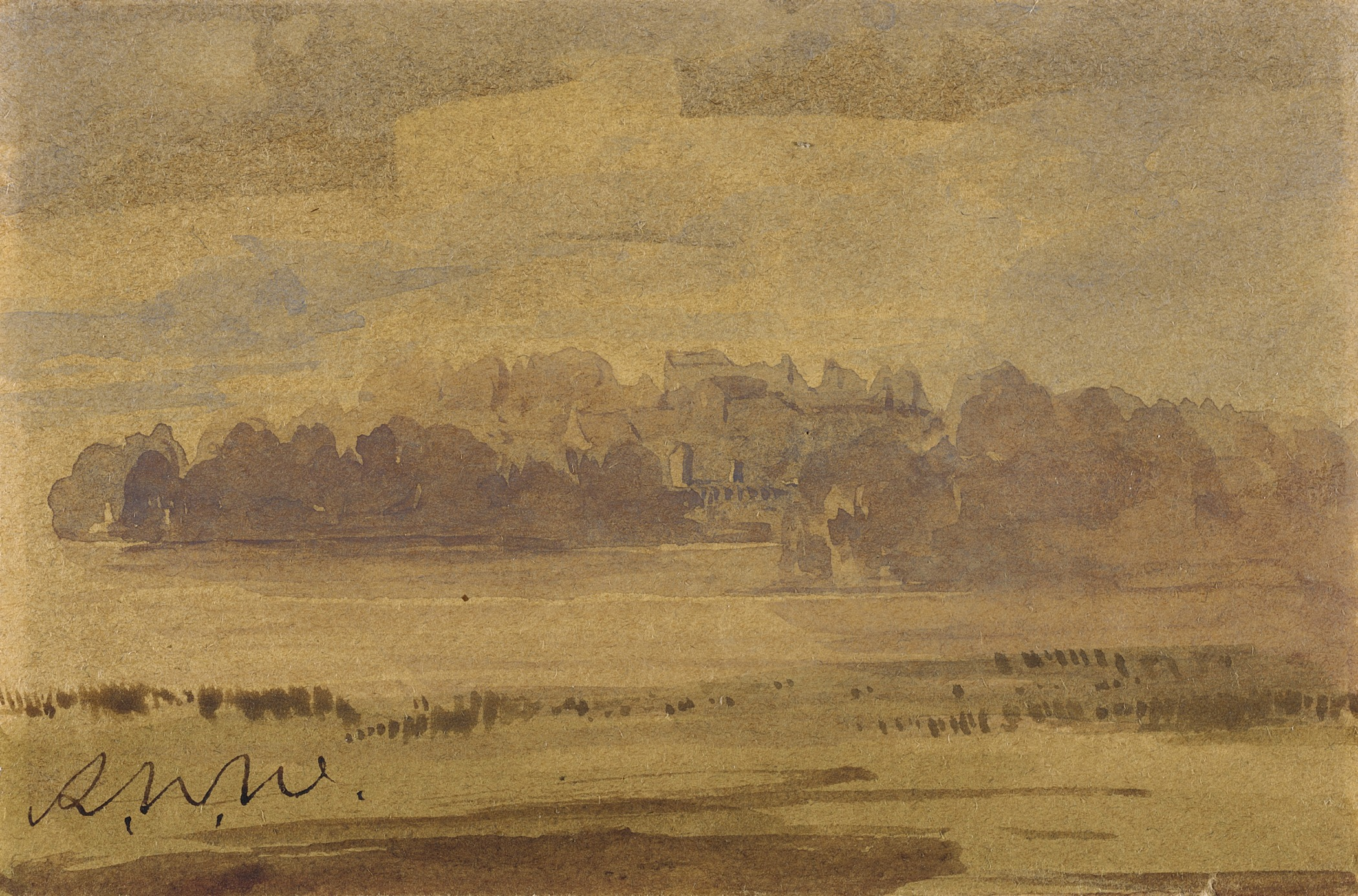 United States, after 1834 Drawings Watercolor Gift of Sandra and Jacob Terner (M.76.167.20) Prints and Drawings